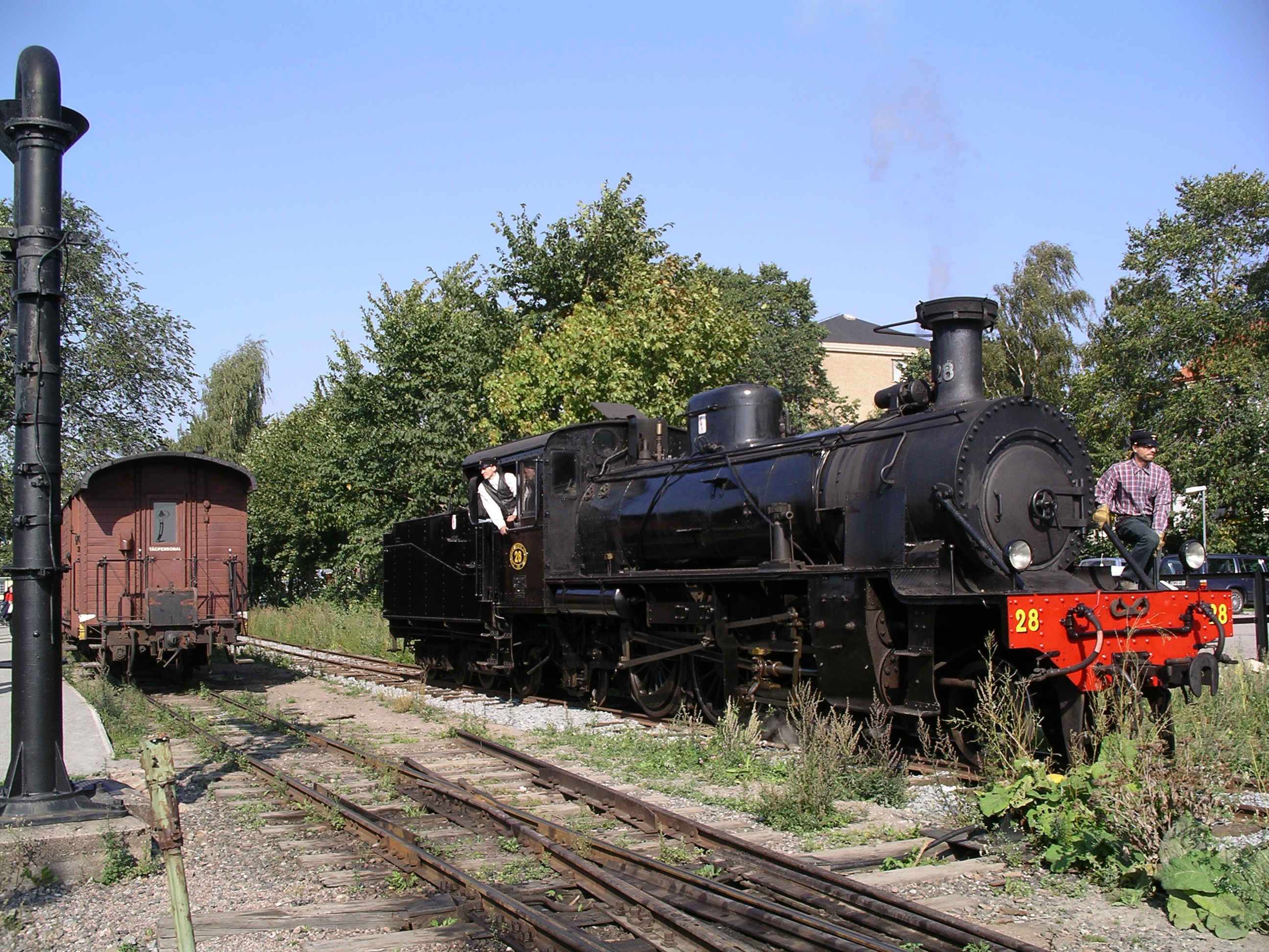 Steam-engine SRJ 28 in Uppsala, Sweden